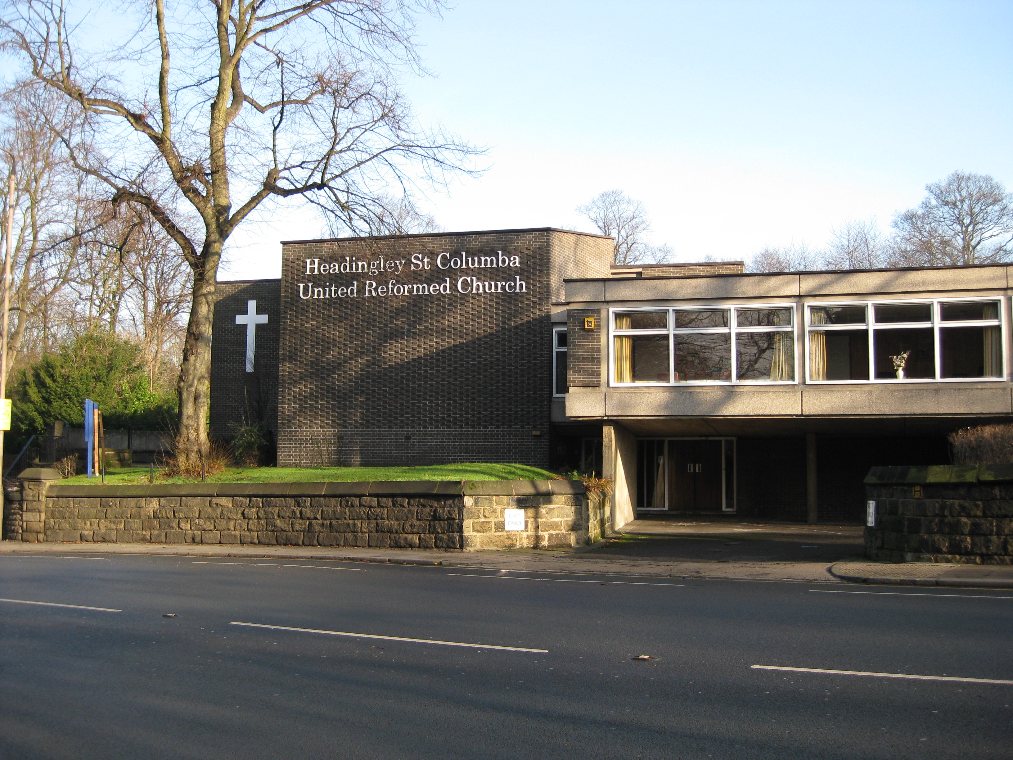 Headingley St Columba United Reformed Church, Headingley Lane, Leeds LS6 2DH